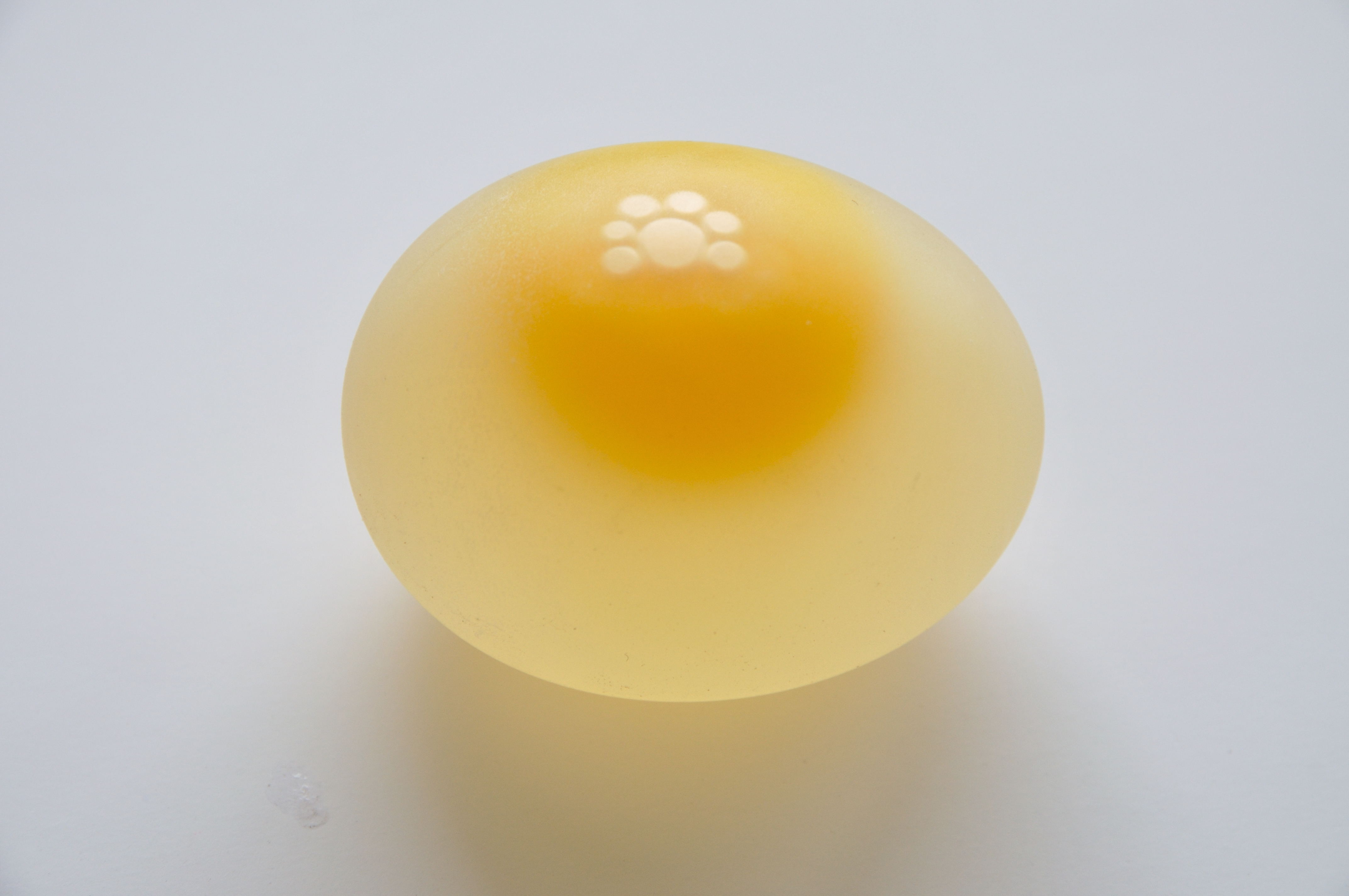 The white eggshell has been removed by dipping a normal chicken egg into vinegar for 48 hrs.